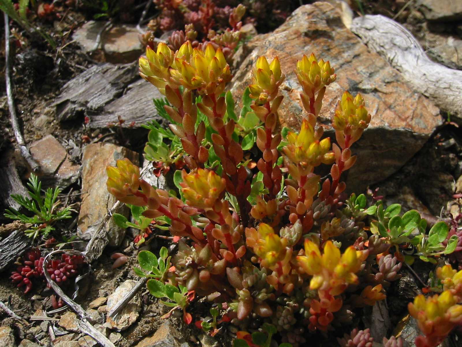 Spearleaf Stonecrop